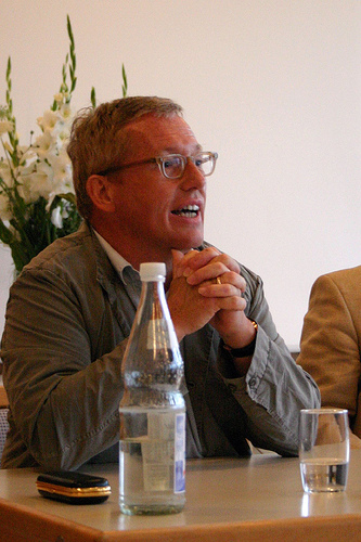 Oswald Metzger, German Politican